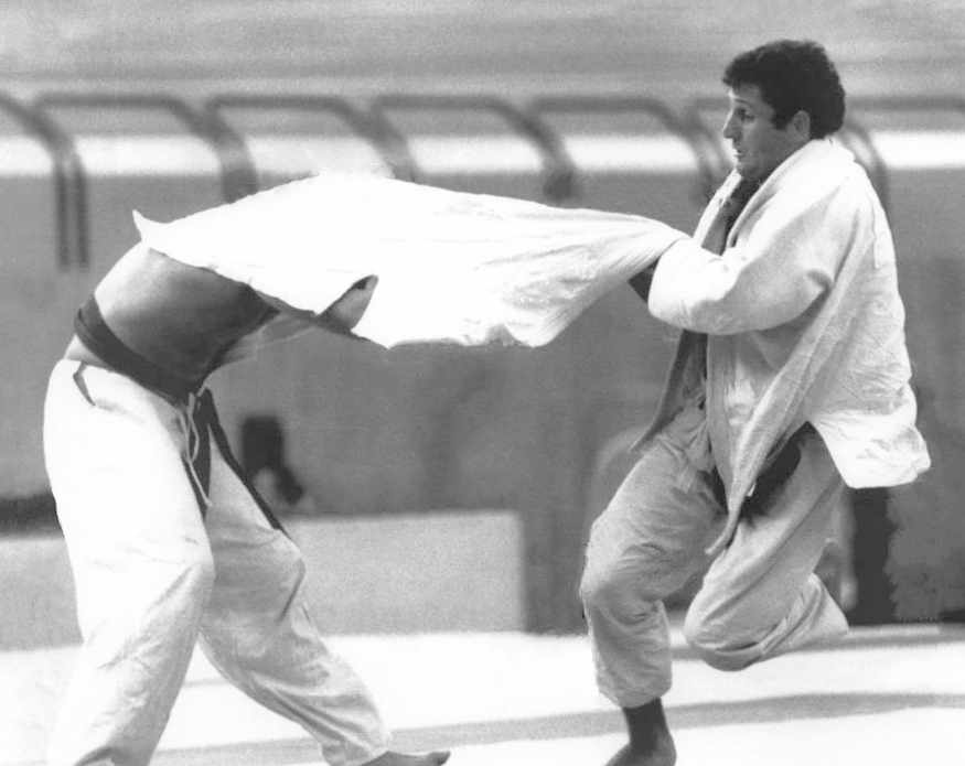 1976 Press Photo Israel's Yona Melnik and Brazil's Roberto Machusso Olympic judo